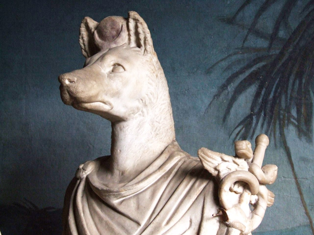 Vatican City